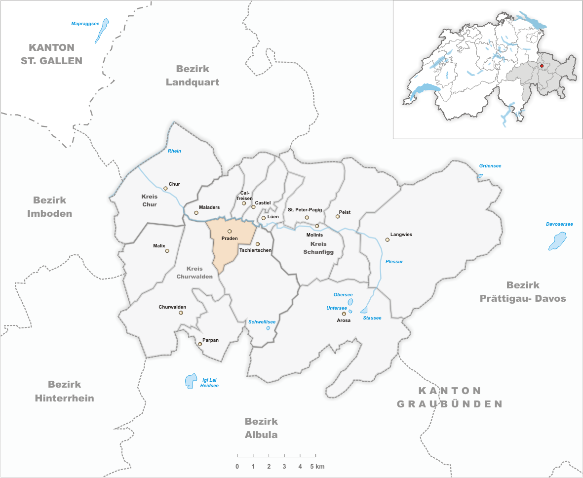 Municipality Praden